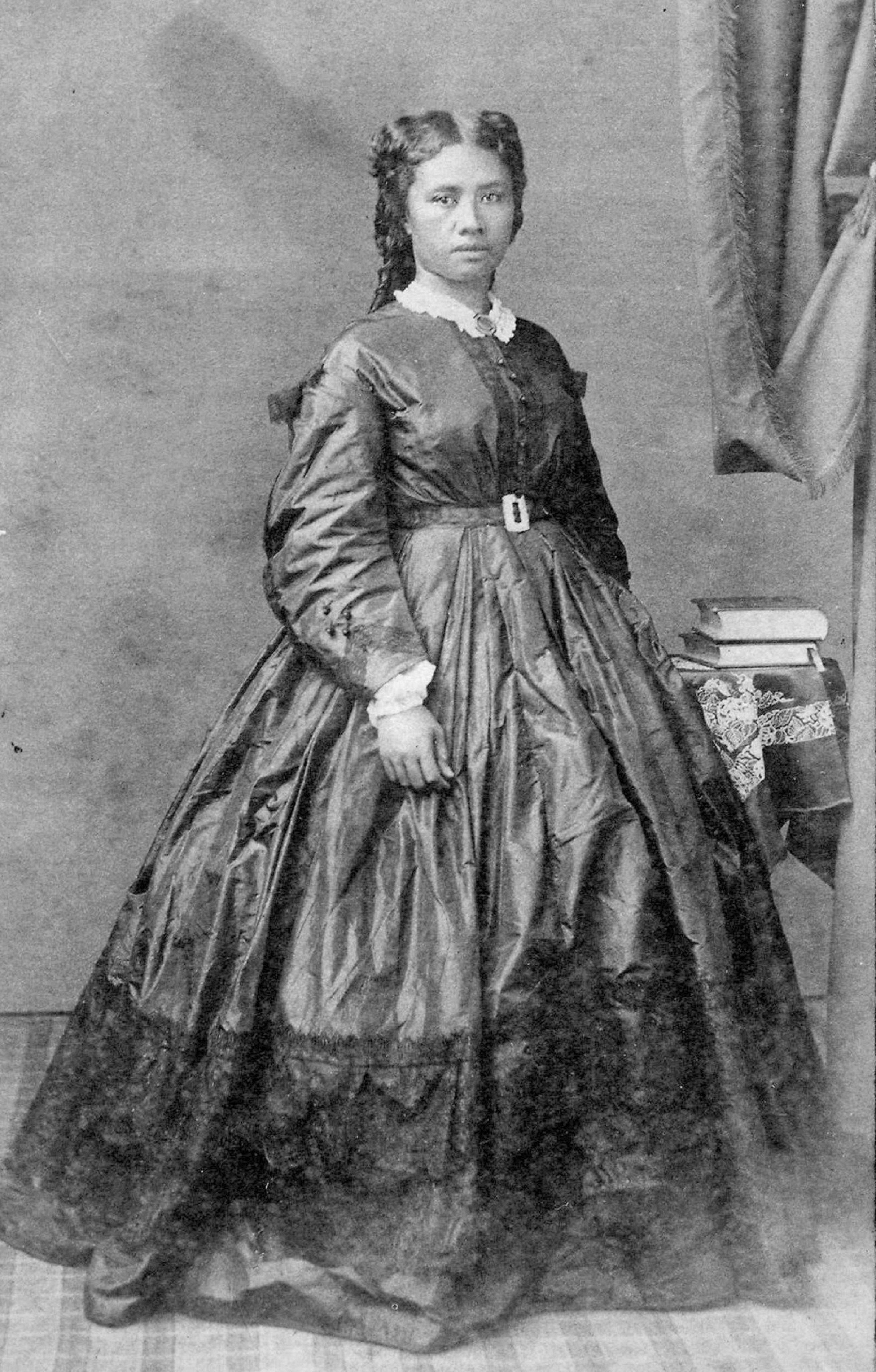 Liliuokalani in 1865, photographed by Charles L. Weed and later reproduced by Henry L. Chase. Cabinet card notes H. L. Chase but the inscription on the bavk by the Hawaii State Archives attribute it to Charles L. Weed